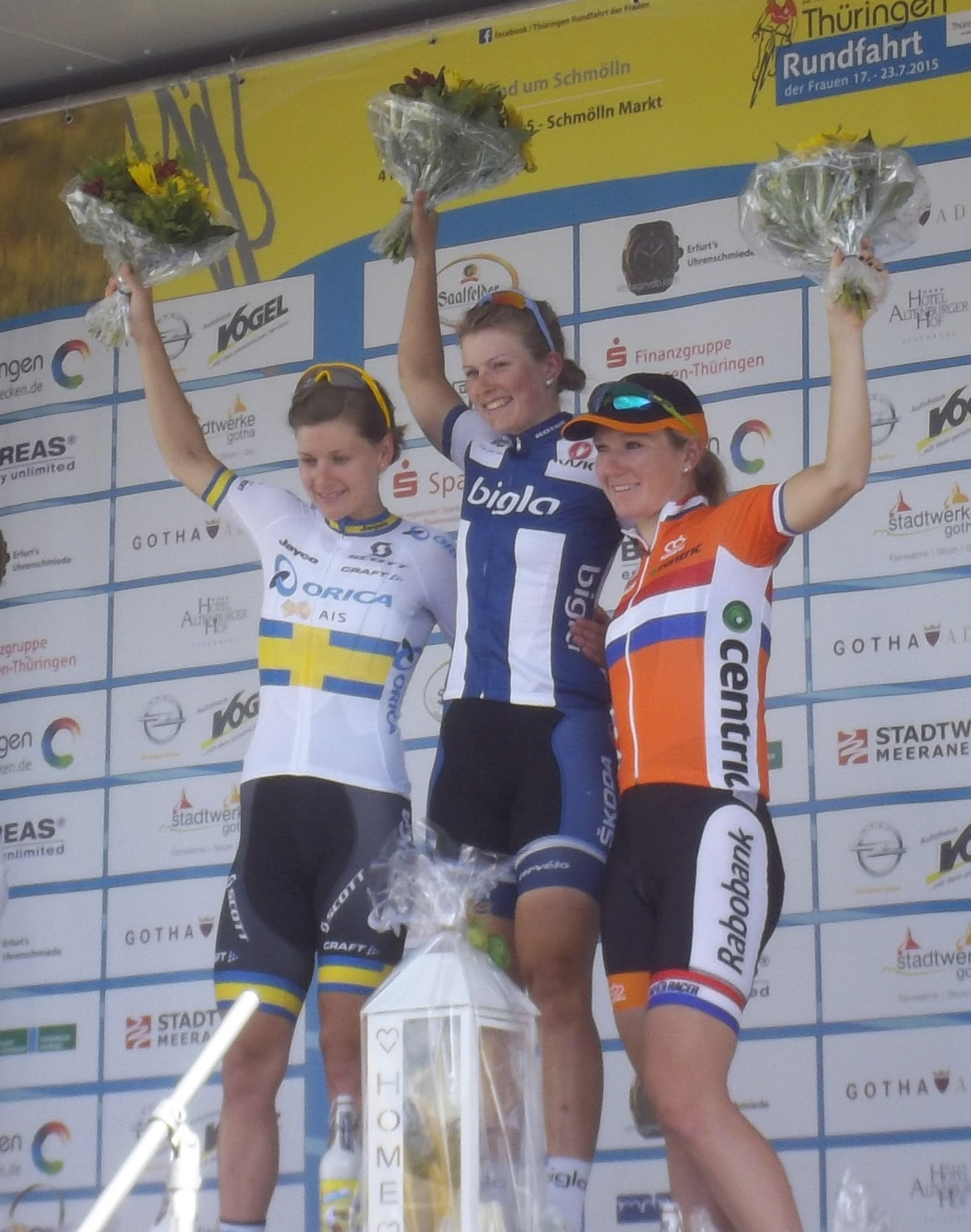 Podium of the stage 4 of the Thuringen Rundfahrt 2015